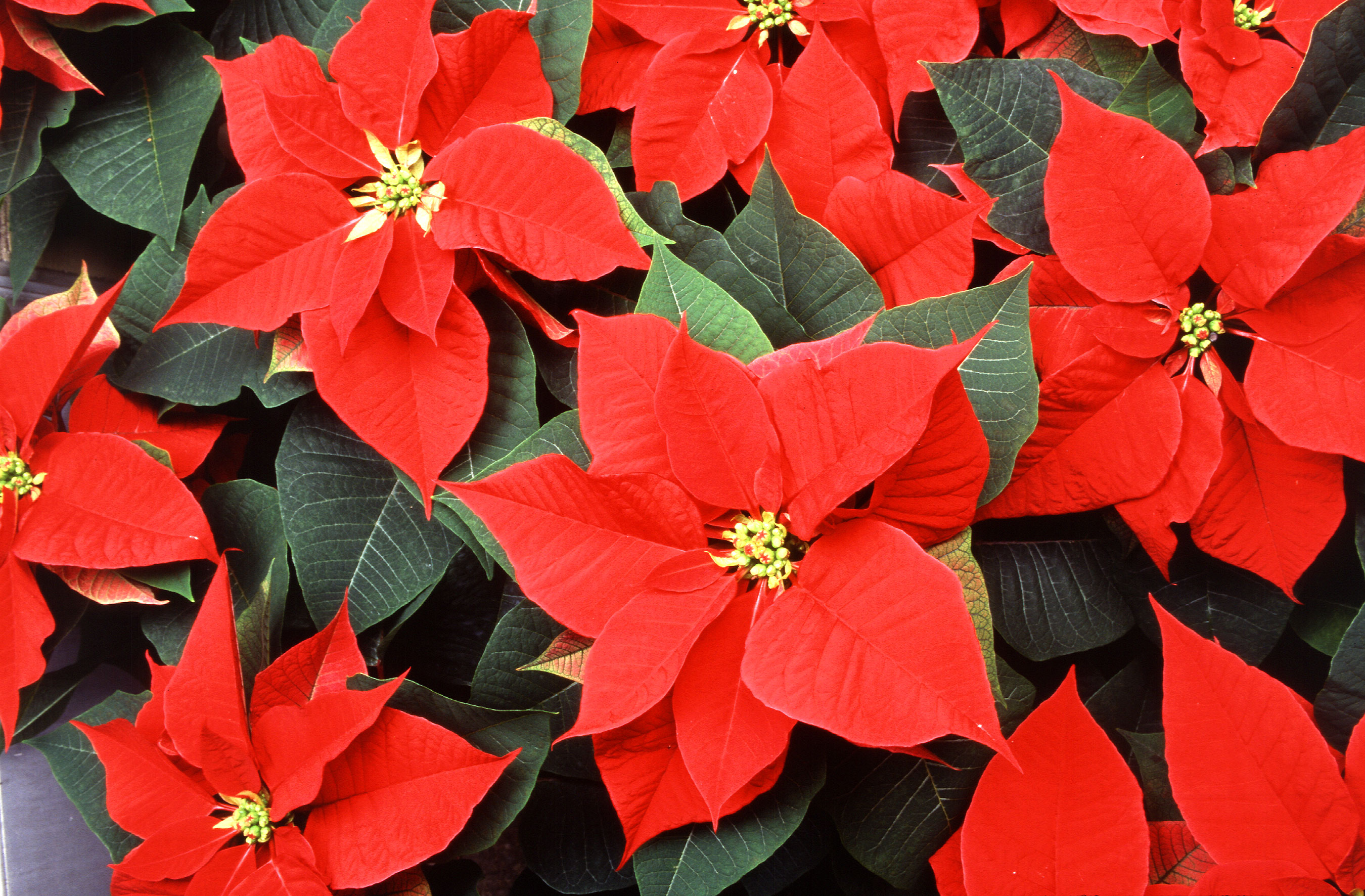 Photo by Scott Bauer.